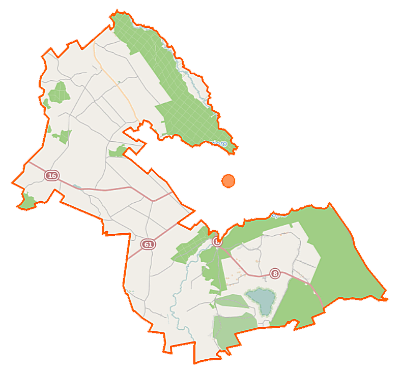 Map of Gmina Augustów, Poland This map of Augustów (gmina) was created from OpenStreetMap project data, collected by the community. This map may be incomplete, and may contain errors. Don't rely solely on it for navigation.